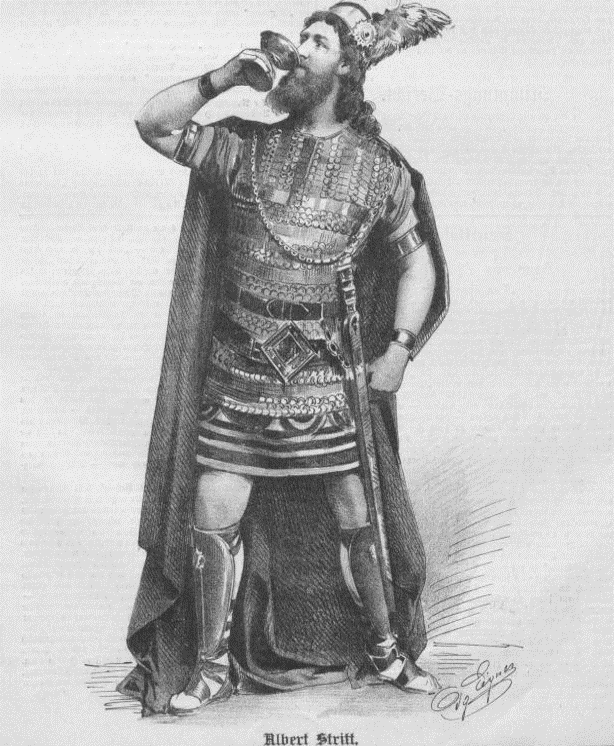 Portrait of Albert Stritt (1847-1908), German actor